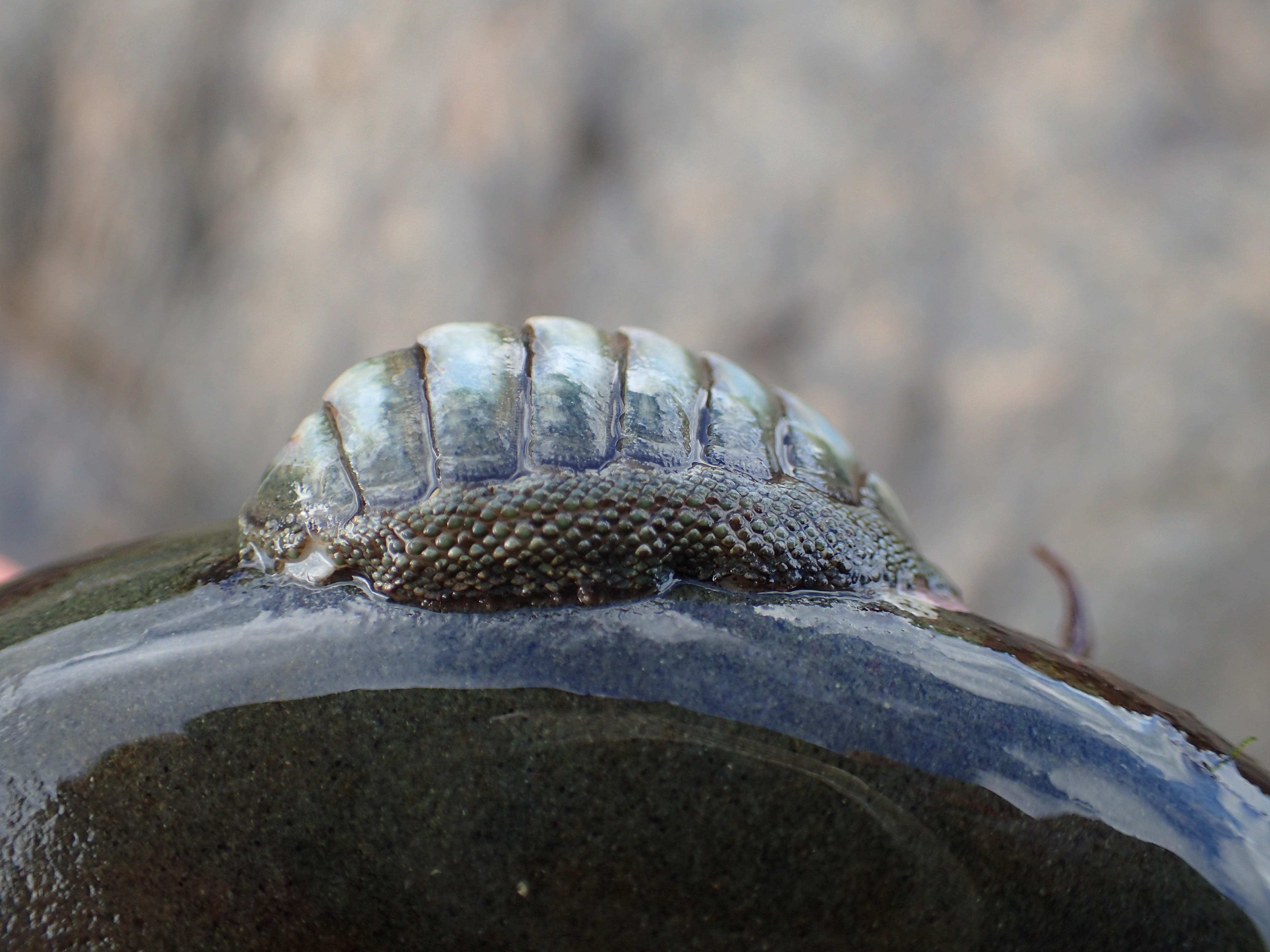 Blue Green Chiton, Wellington, New Zealand